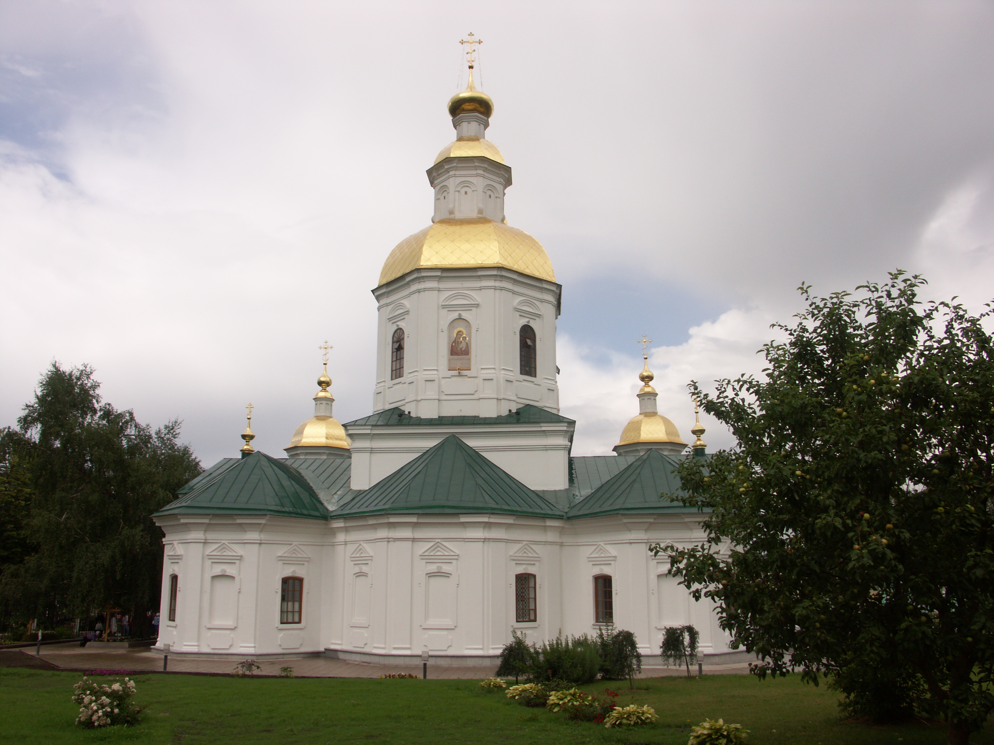 Our Lady Of Kazan Church in Diveevo